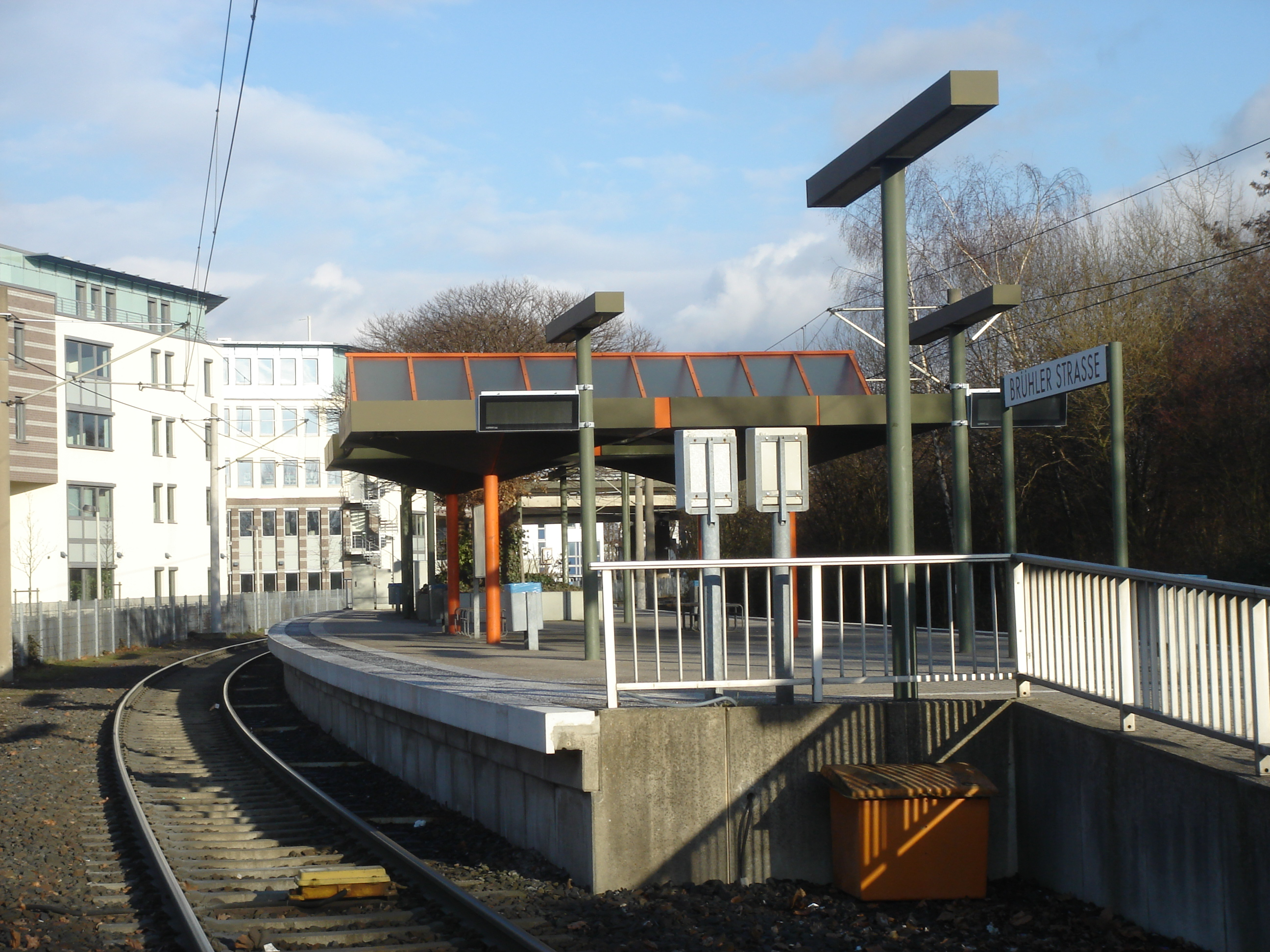 A stop of the Stadtbahn Bonn at Brühler Straße in Bonn, Germany.